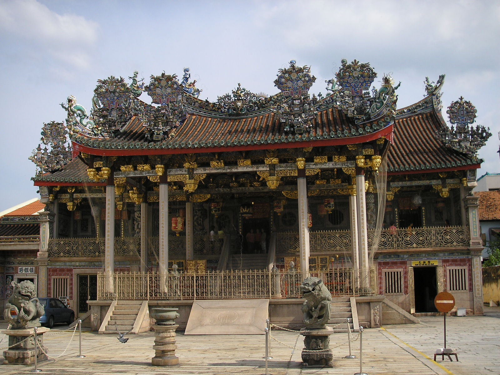 Image of the Leong San Tong Khoo Kongsi (also known as Khoo Kongsi Temple) in George Town, Penang.